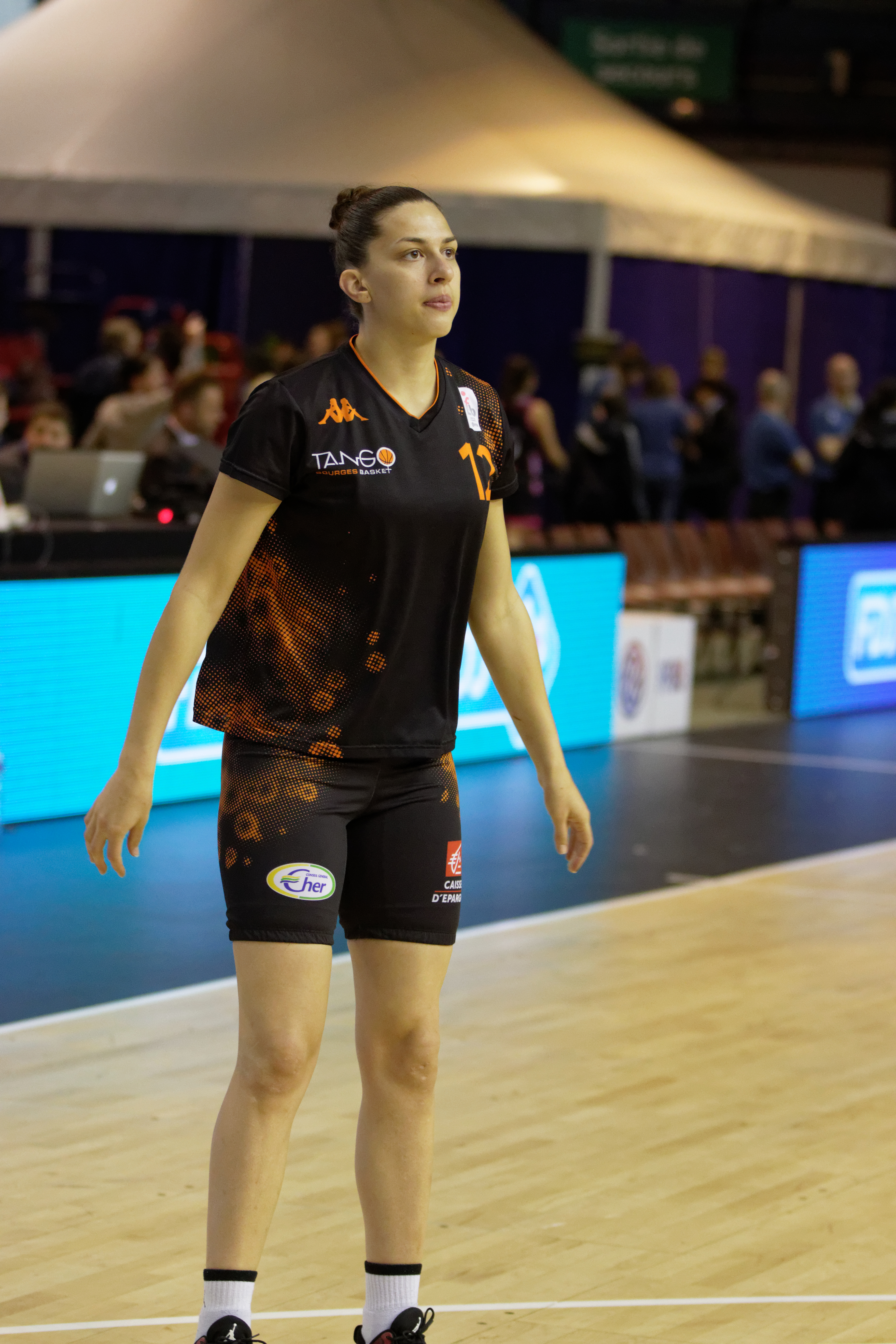 Final of the French Basketball Cup, Lattes-Montpellier vs Bourges, 2nd May 2015.